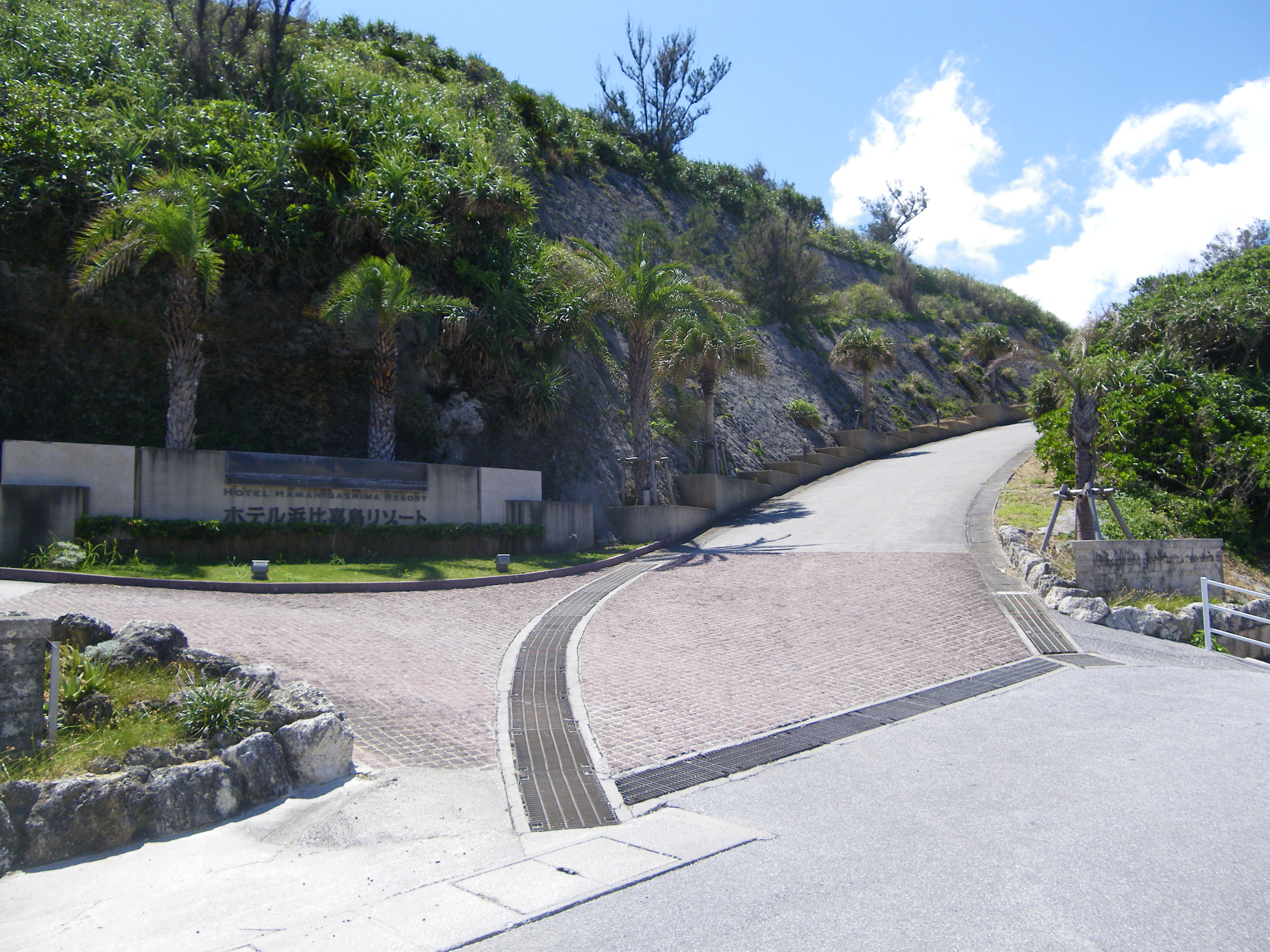 The entrance of the Hotel Hamahigashima Resort